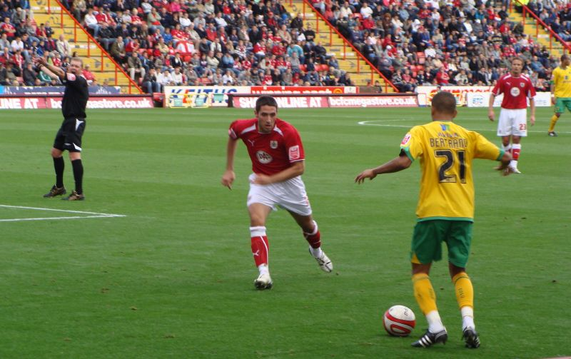 Bristol City V Norwich City